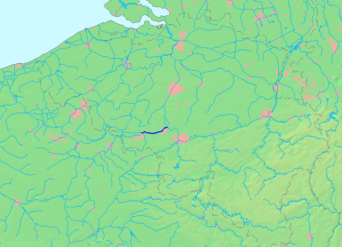 Location of a waterway (river/canal) in Belgium